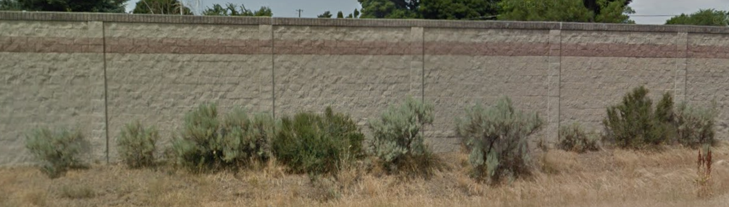 Sagebrush in Spokane Valley along Interstate 90